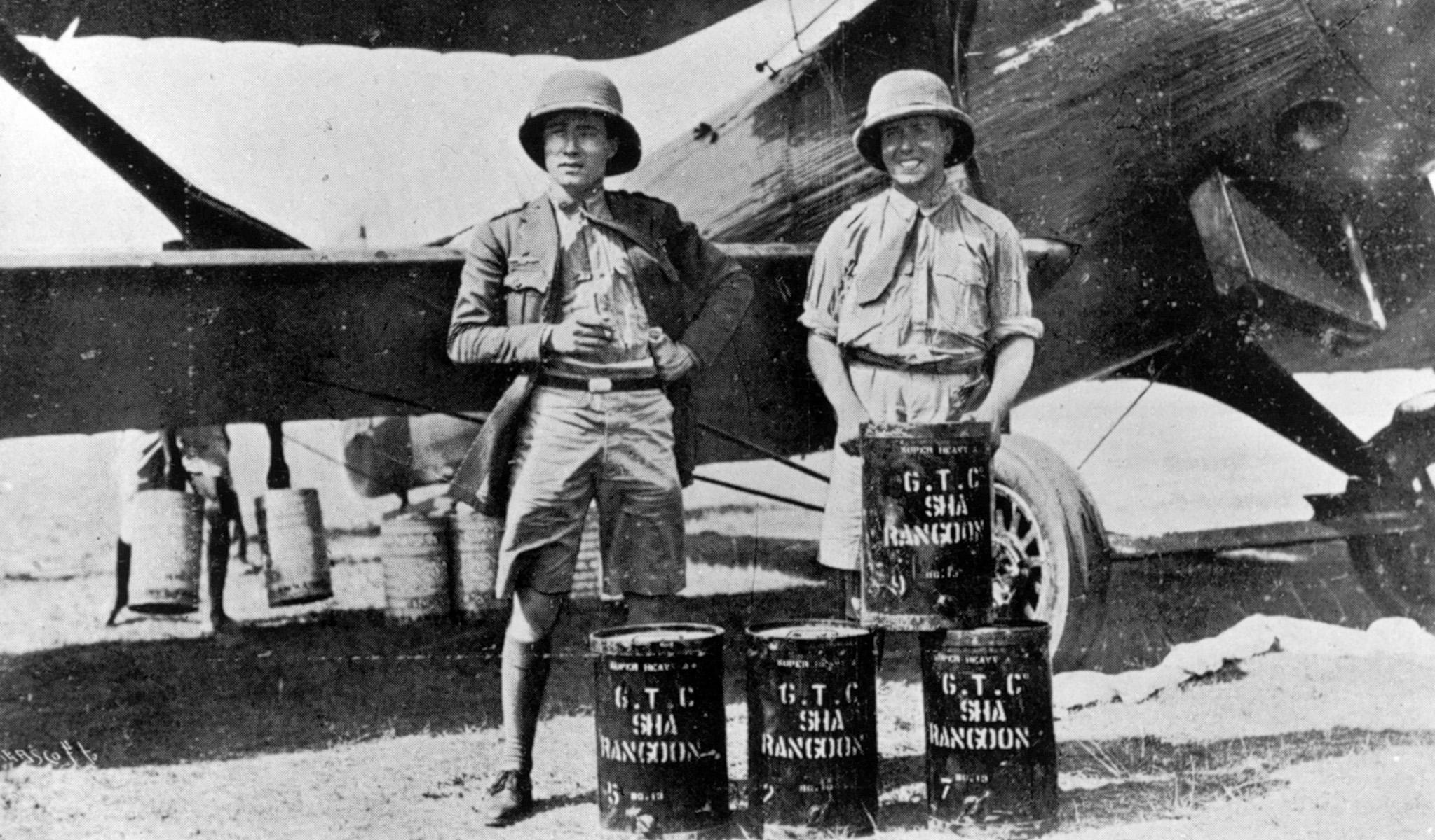 Gallarza and Loriga (on the right) in a layover in Rangun.